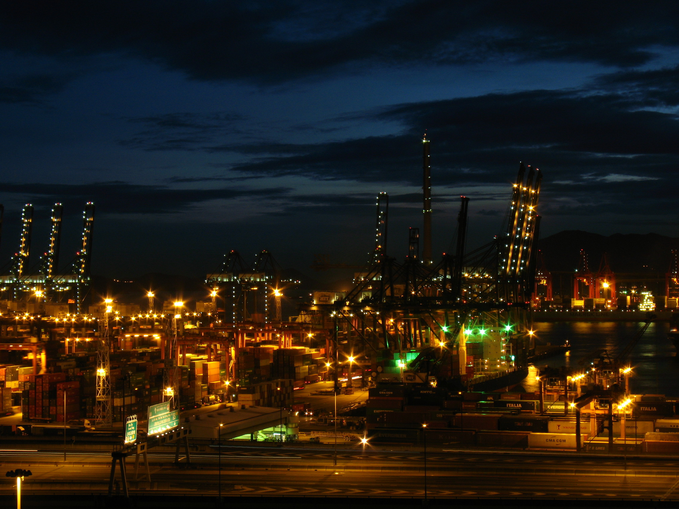 Kwai Tsing Container Terminals at night 中文（香港）: 晚上的葵青貨櫃碼頭